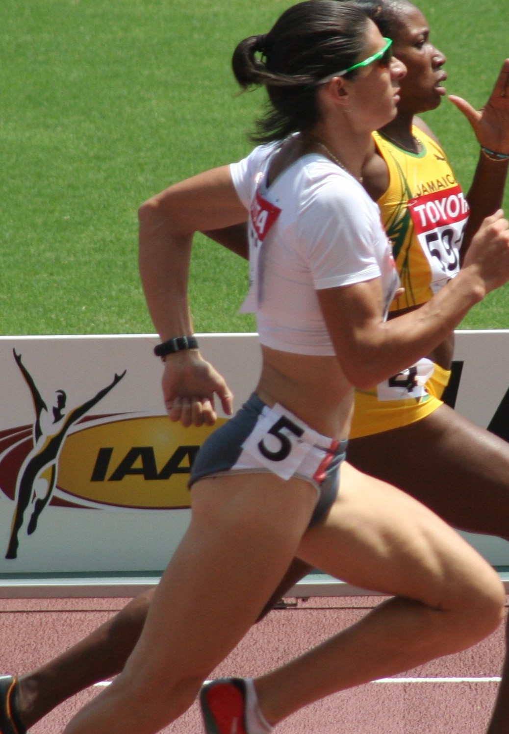 World Athletics Championships 2007 in Osaka - Mexican 400 m runner Ana Guevara together with Novlene Williams during their 1st heat